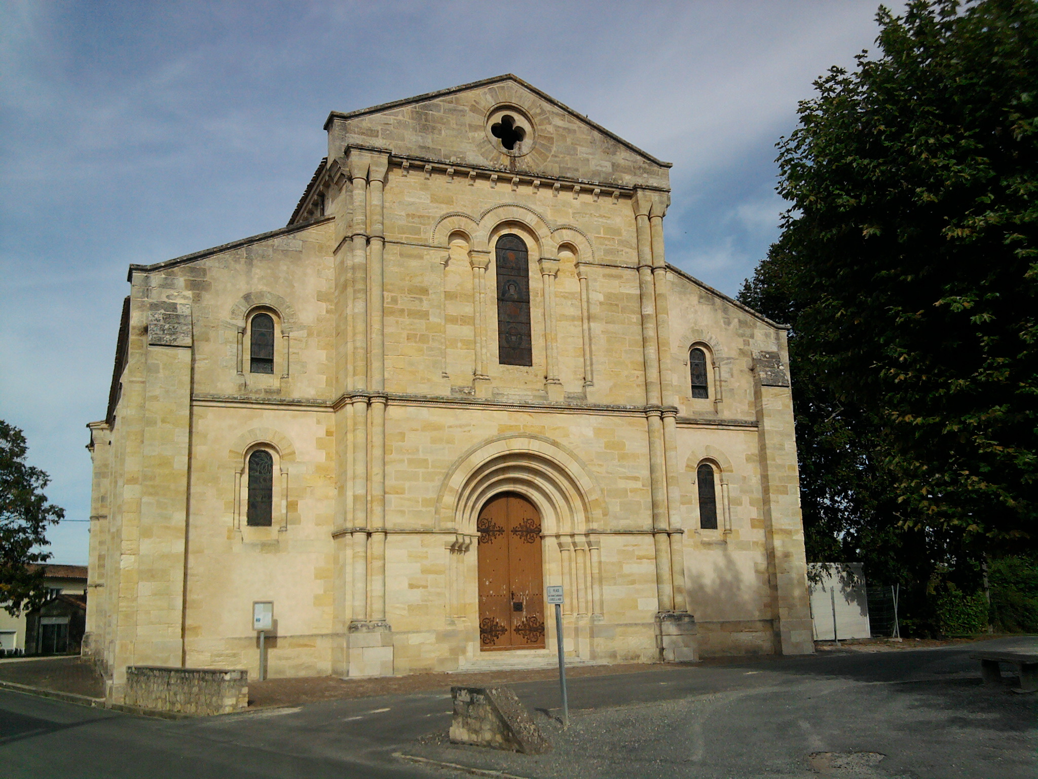 Front of the Saint Pierre church in Gaillan-en-Médoc, France..